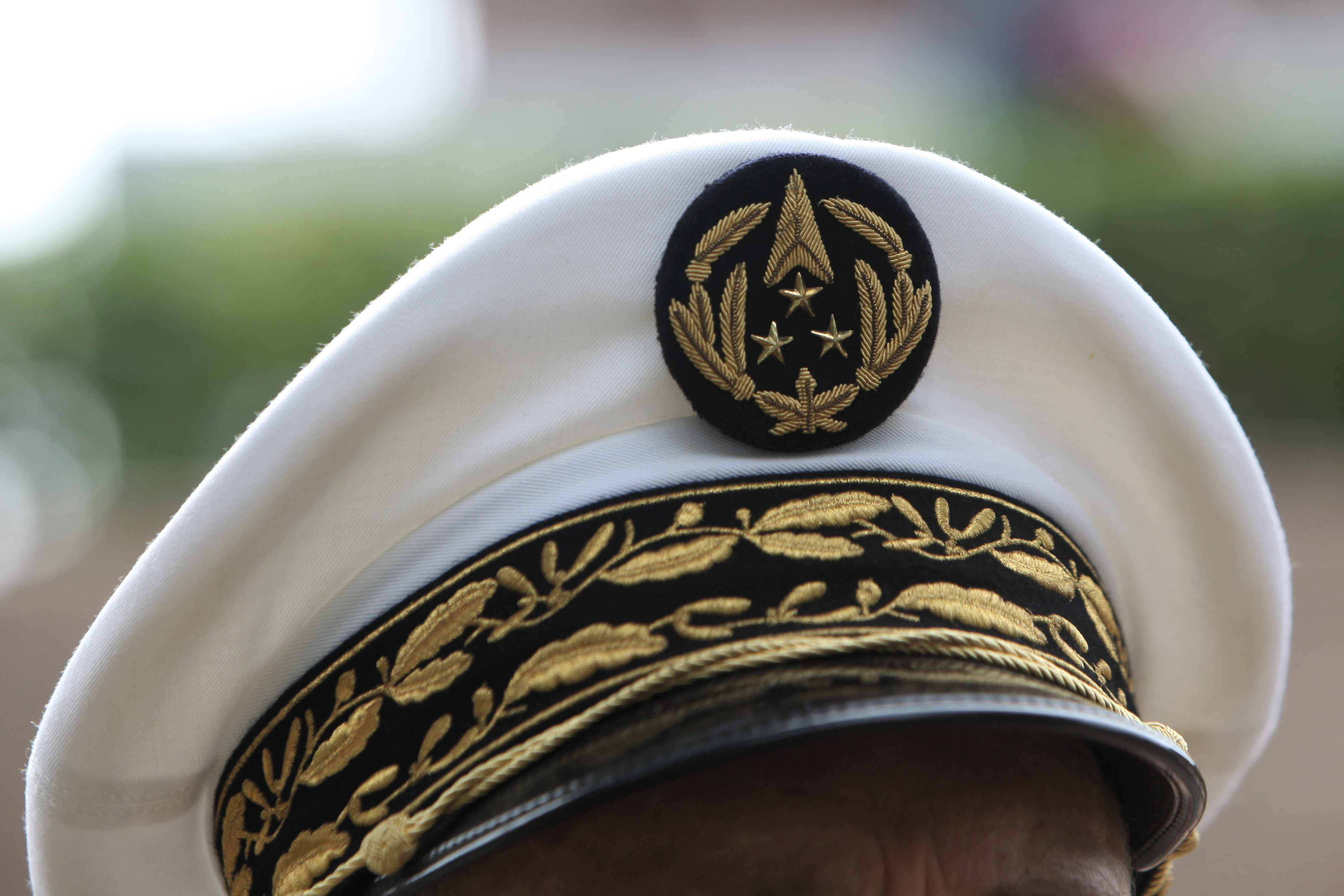 Hat of an Engineer-General first class of the General Delegation for Armament